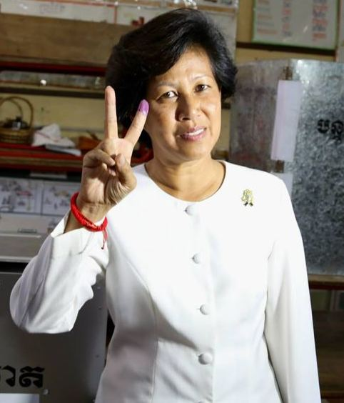 Princess Norodom Arunrasmy, president of the royalist FUNCIPEC Party, casts her vote a polling station at the Teaksin primary school in Kampong Cham town, northeast of Cambodia's capital Phnom Penh. (Heng Reaksmey/VOA Khmer)